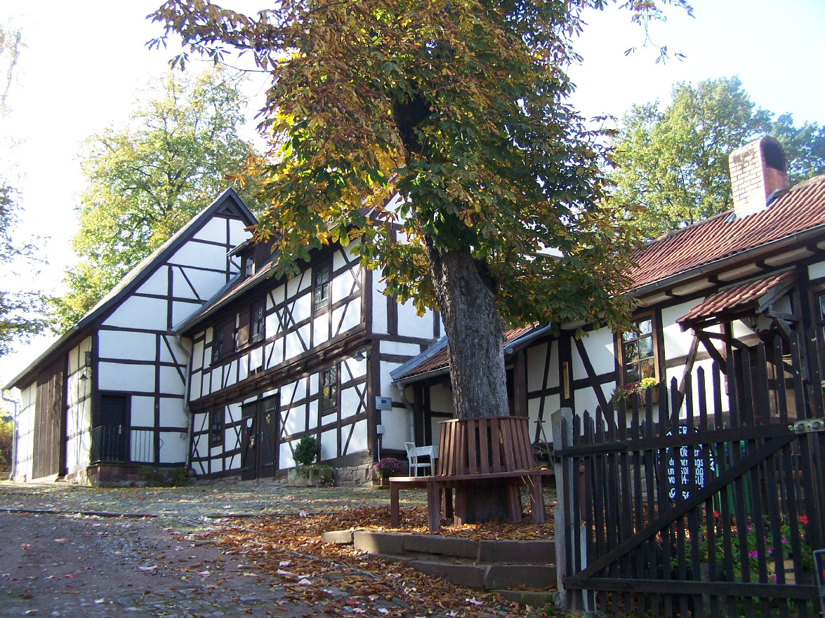 The Hoerselberg museum in Schönau village.